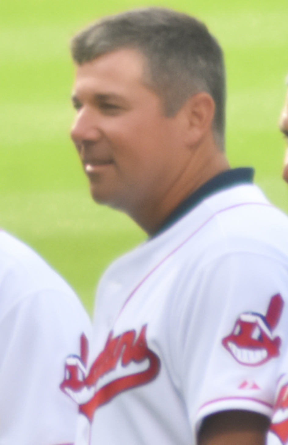 1995 Cleveland Indians